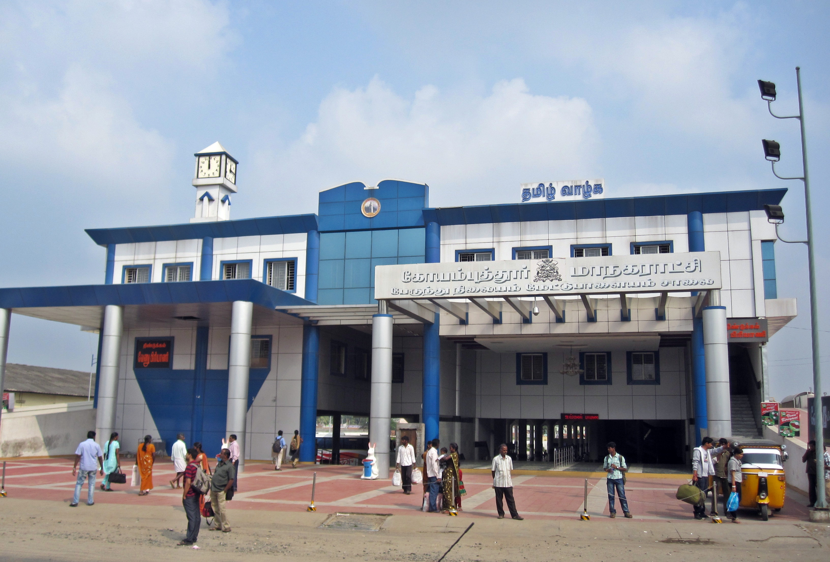 New bus stand, Mettupalayam road, coimbatore. North bound buses toward Ooty/mettupalayam start from here